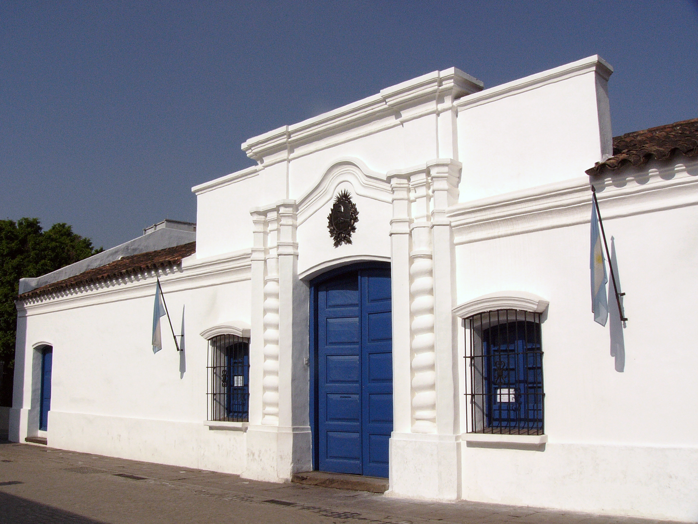 Independence House (Casa de la Independencia) in Tucumán, Argentina